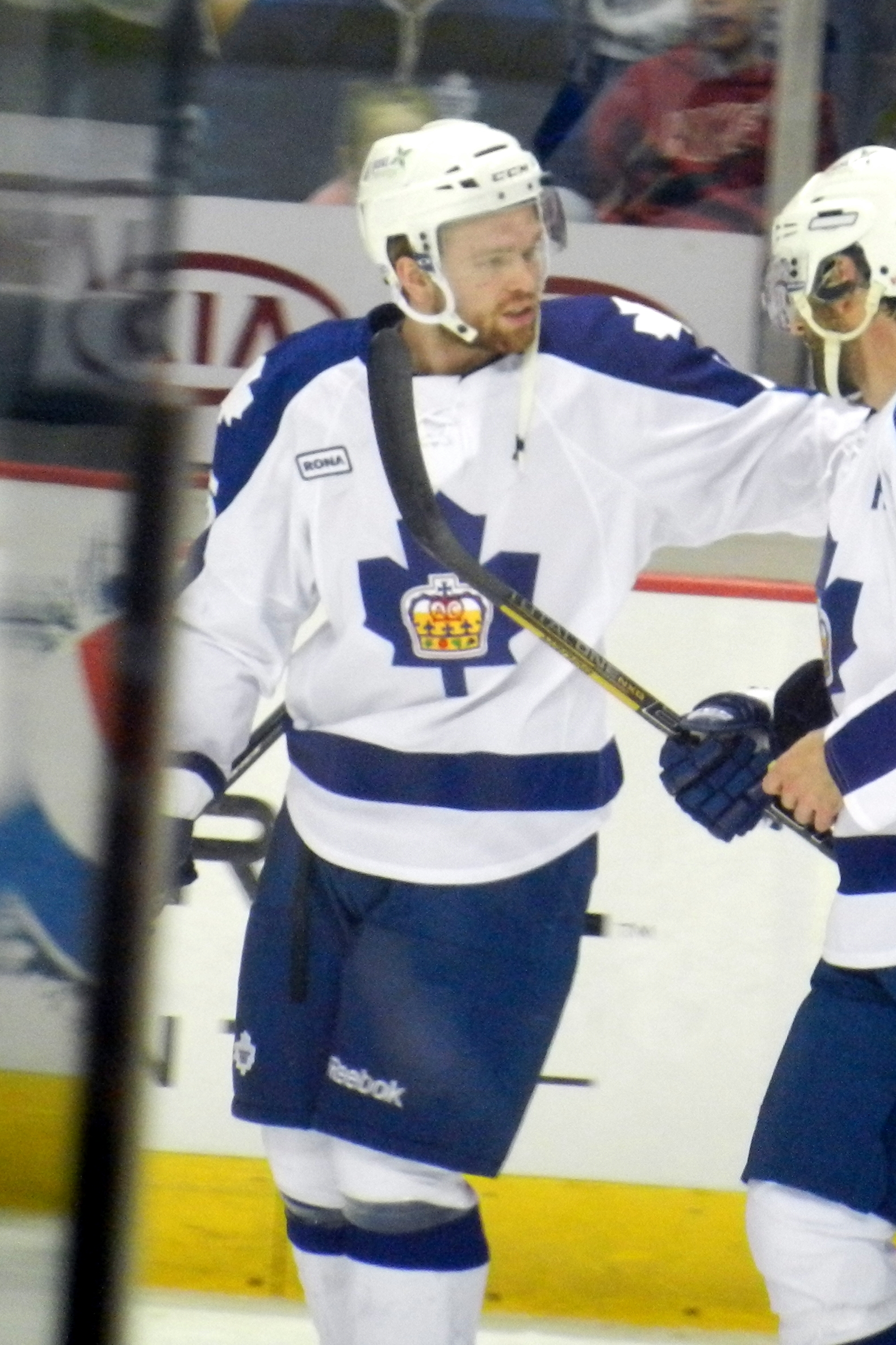 Spencer Abbott playing for the American Hockey League's Toronto Marlies